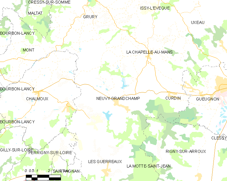 Map of French municipality